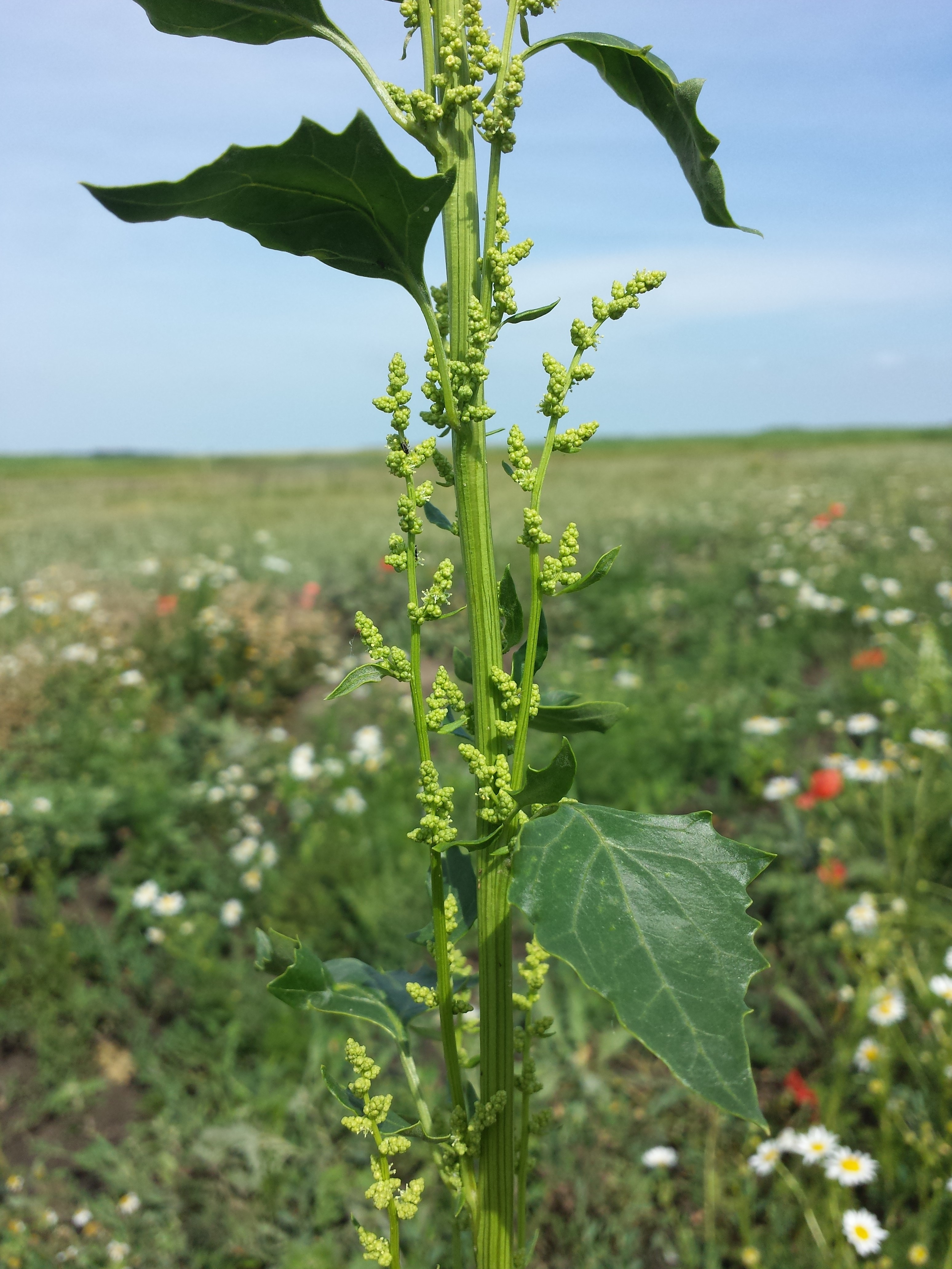 Inflorescence Taxonym: Chenopodium urbicum ss Fischer et al. EfÖLS 2008 ISBN 978-3-85474-187-9 Location: next to Wörtenlacke near Apetlon, district Neusiedl am See, Burgenland, Austria - ca. 120 m a.s.l. Habitat: field